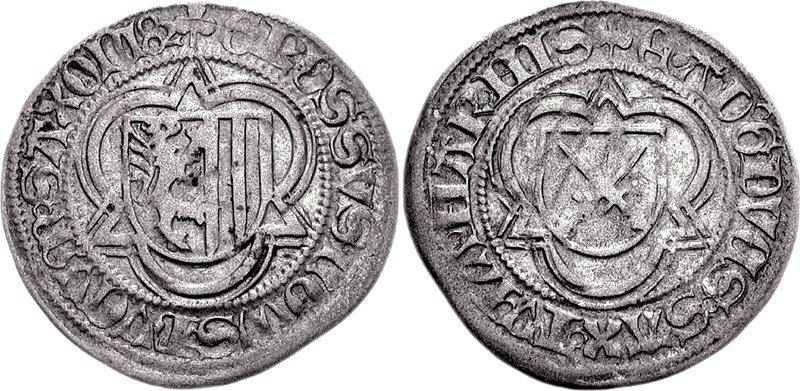 GERMANY, Sachsen. Ernst and Albrecht. 1482-1485. AR 1/2 Schwertgroschen (2.05 g, 11h). Zwickau/Schneeberg mint. Dated 1482. Coat of arms of the elector of Saxony (crossed swords) within trefoil Coat of arms of Landsberg-Meissen within trefoil. Krug 1610-18; Levinson I-185; Frey 232. VF, toned. Well struck. From the Robert A. Levinson Collection. When this coin was produced, brothers Ernst and Albrecht were joint rulers of Saxony after the death of their father, Elector Frederick II of the Wettin dynasty. In the 1485 Treaty of Leipzig, the dukes agreed to split their territory. Ernst, the elder brother, took Thuringia and western Saxony along with the electoral title (Elector of Saxony). Albrecht, on the other hand, took the eastern regions, including the margravate of Meissen. This division was the foundation of two separate lines of the Saxon dynasty -- Ernestine and Albertine -- that would continue to have influence over the area for several centuries.